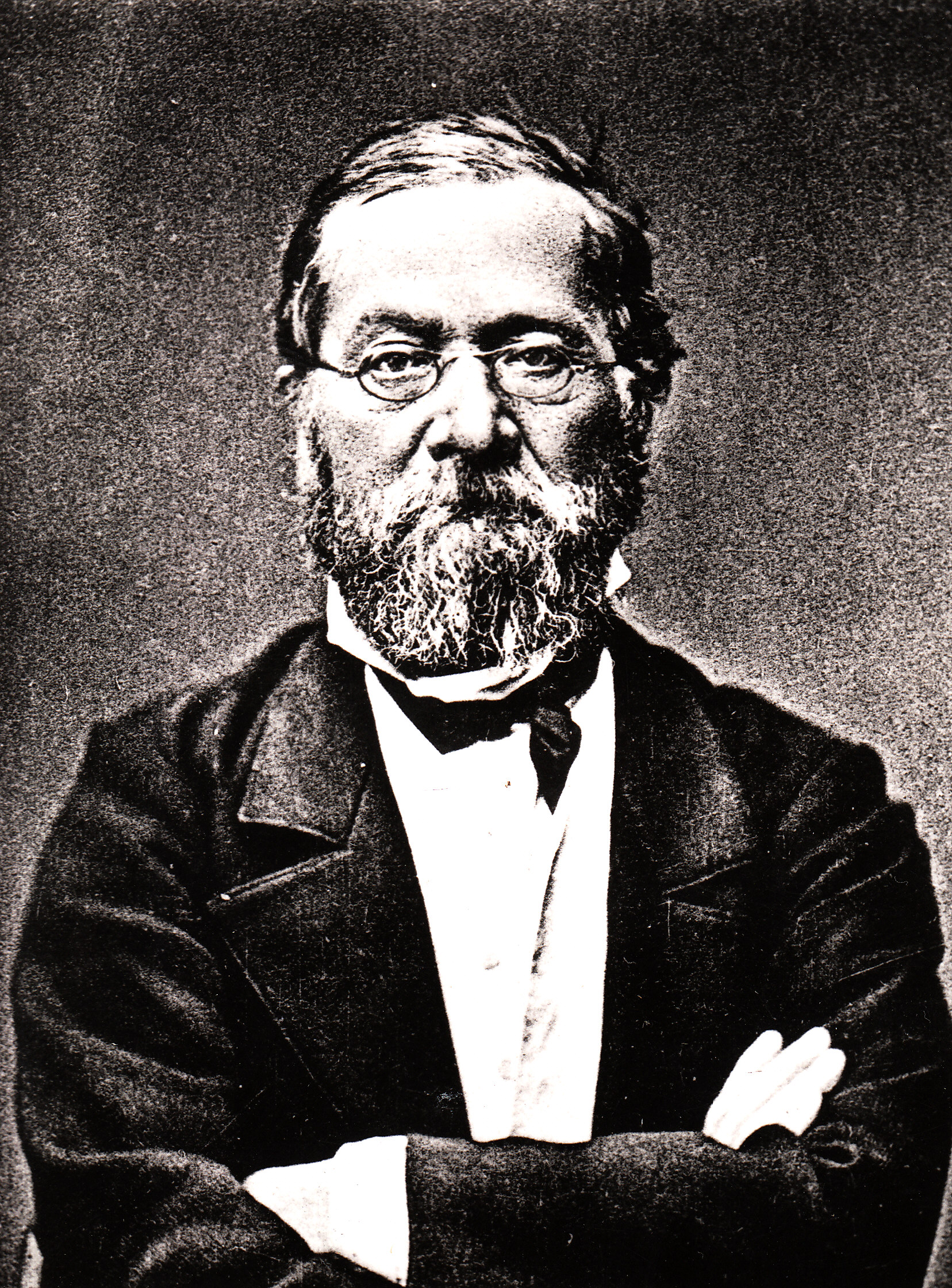 Portrait of composer/organist Martin Andreas Udbye (1820 - 1889)